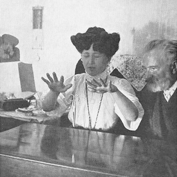 Polish telekinetic Stanisława Tomczyk levitates a pair of scissors while in a trance as psychologist Julian Ochorowicz watches closely. Wisla, Poland, 1909.